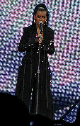 Christina Aguilera singing "The Voice Within" on the "Stripped Tour"